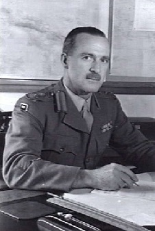 Victoria Barracks, Melbourne, Vic. NX70398 Colonel R. G. Pollard DSO, Deputy Director of Military Operations (DDMO).